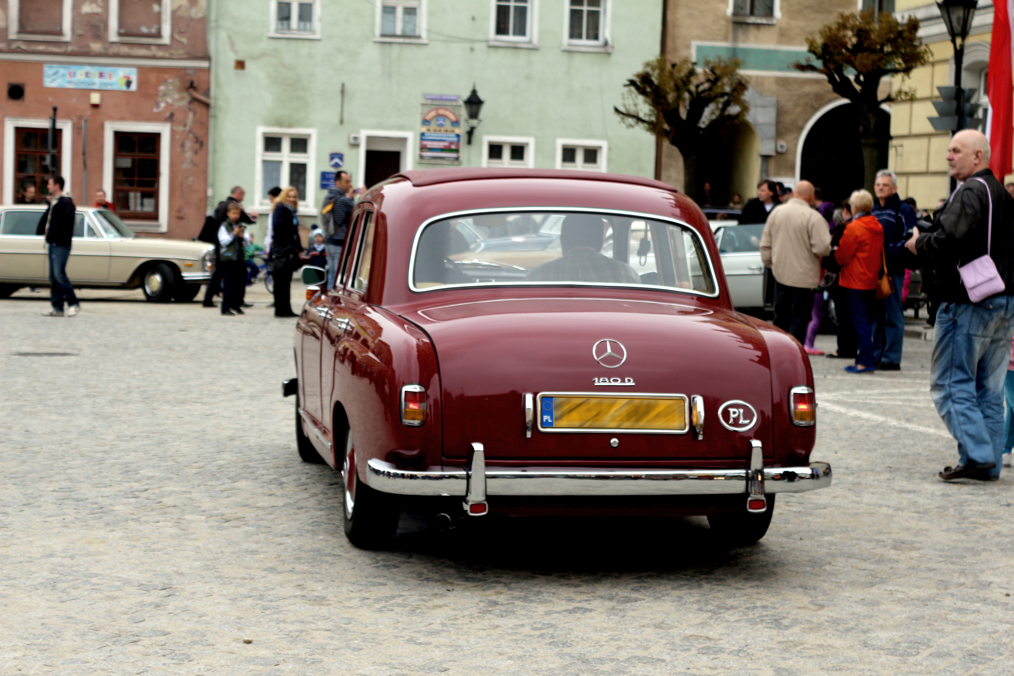 Mercedes Benz W120 180D 1954